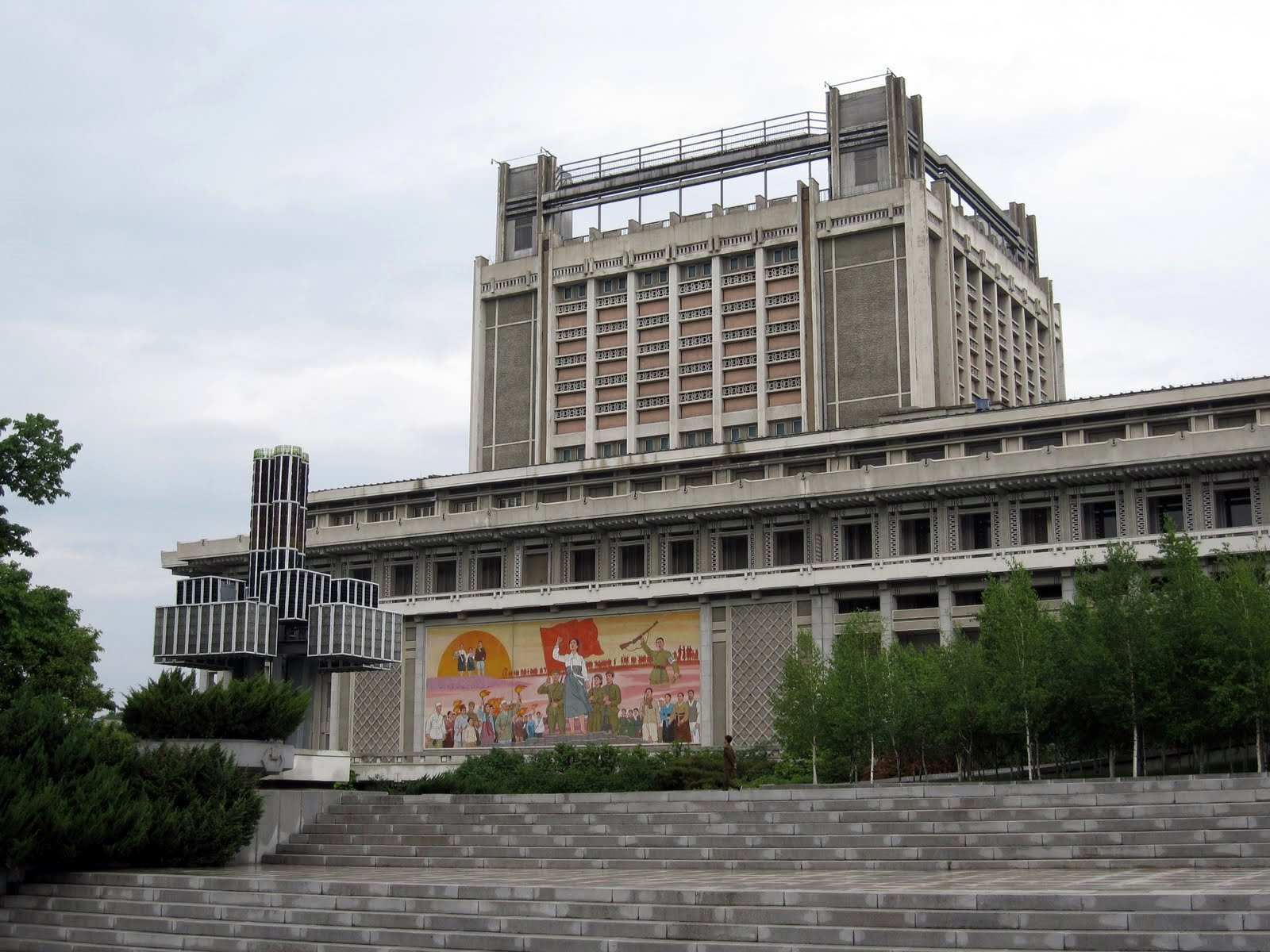 Another day of monuments, this a cultural building, moments later a security guard appeared out of the bushes on the left, no wonder Miss Kim kept clear